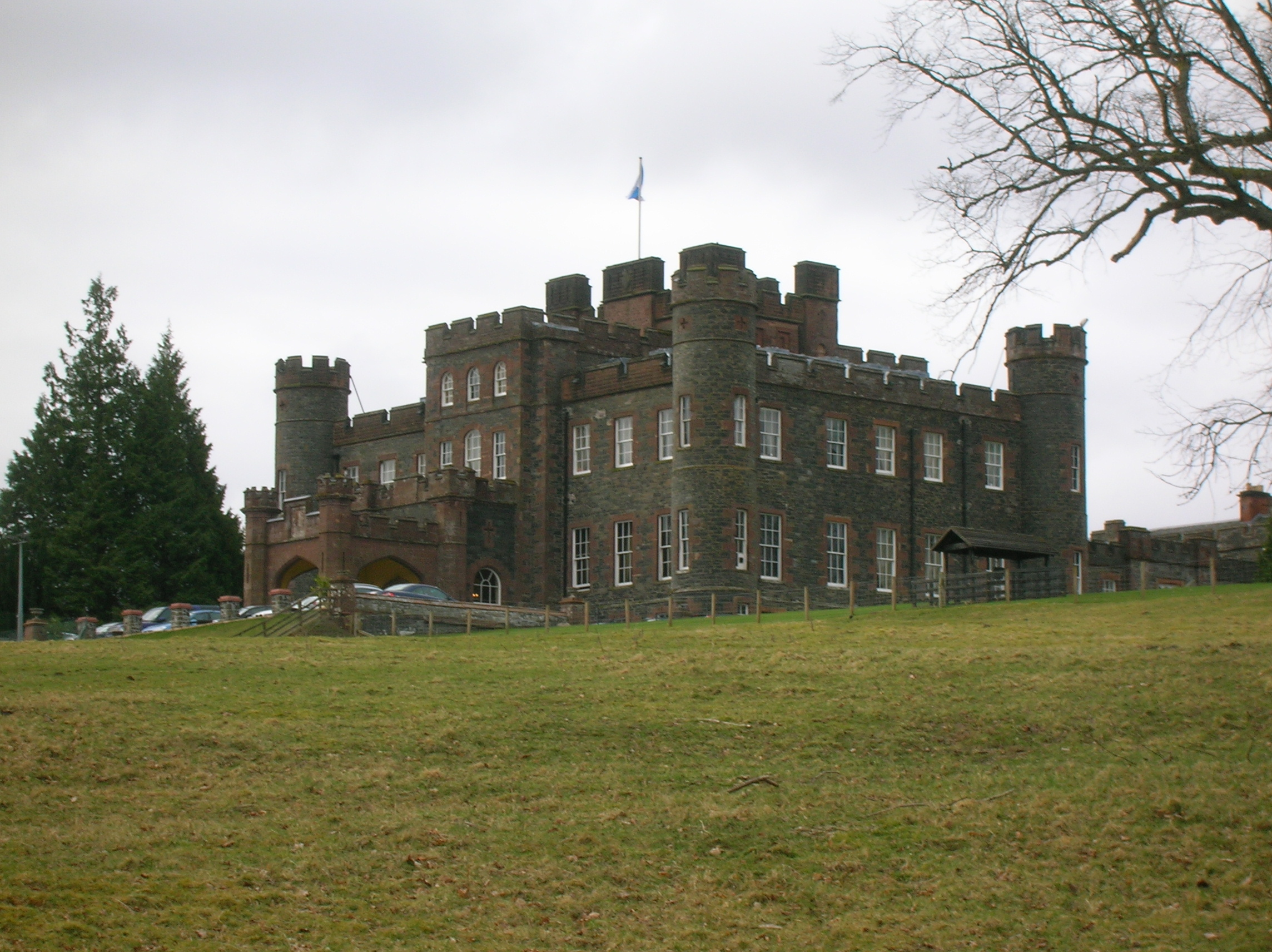 Stobo Castle from the driveway. Peeblesshire, Scotland.